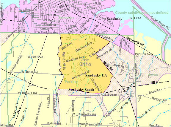 Map of Sandusky South, a census-designated place (CDP) in Erie County, Ohio, United States, with its boundaries at the time of the 2000 census.